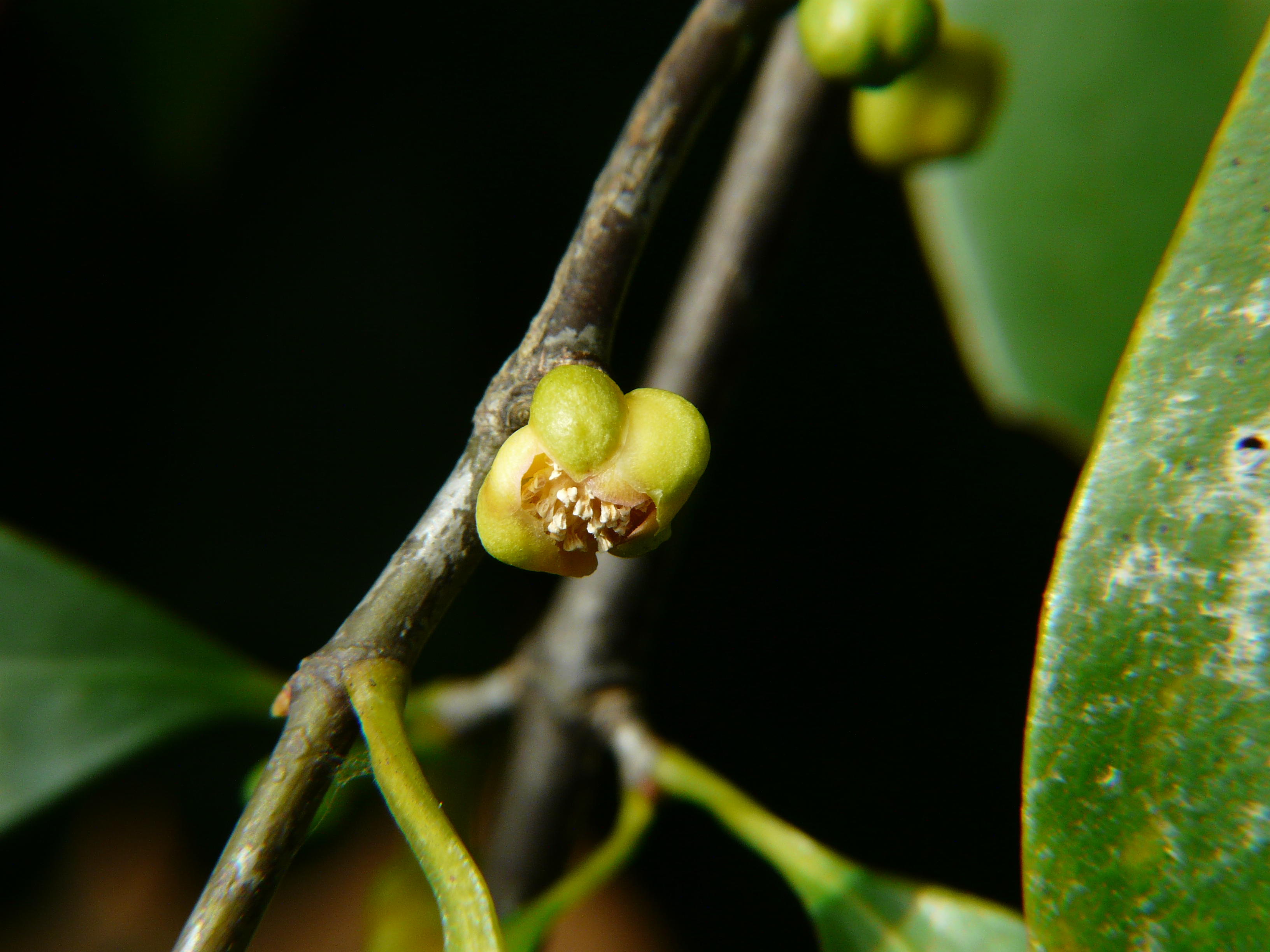 Clusiaceae (garcinia family) » Garcinia indica gar-SIN-ee-uh -- named for Laurent Garcen, French botanist who was active in India IN-dih-kuh or in-DEE-kuh -- of or from India commonly known as: butter tree, Goa butter, Indian tallow tree, kokam, red mango • Gujarati: કોકમ kokam • Kannada: ಮುರ್ಗಿನ murgina, ಪುನರ್ಪುಳಿ punarpuli • Konkani: भिरींड bhirind, कोकम kokam • Malayalam: കാട്ടമ്പി kaattampi, കൊക്കം kokkam • Marathi: भेरंड bheranda, भिरंड bhiranda, कोकंब kokamba, कोकंबी kokambi, रातंबा ratamba, रातंबी ratambi, तांबडा आंबा tambada amba • Oriya: tintali • Sanskrit: वृक्षामला vrikshamla Endemic to: India (Konkan and Western Ghats); elsewhere cultivated References: Flowers of India • Wikipedia • NPGS / GRIN • ENVIS - FRLHT